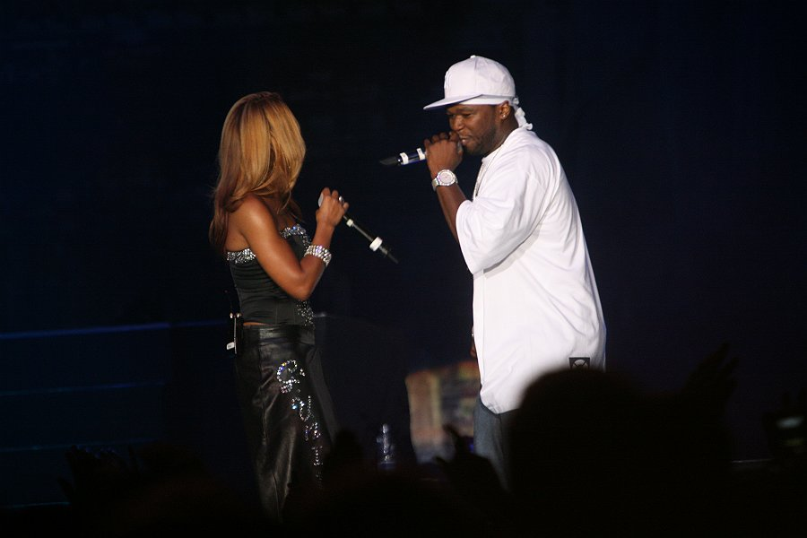 Photo by Rikard Westman